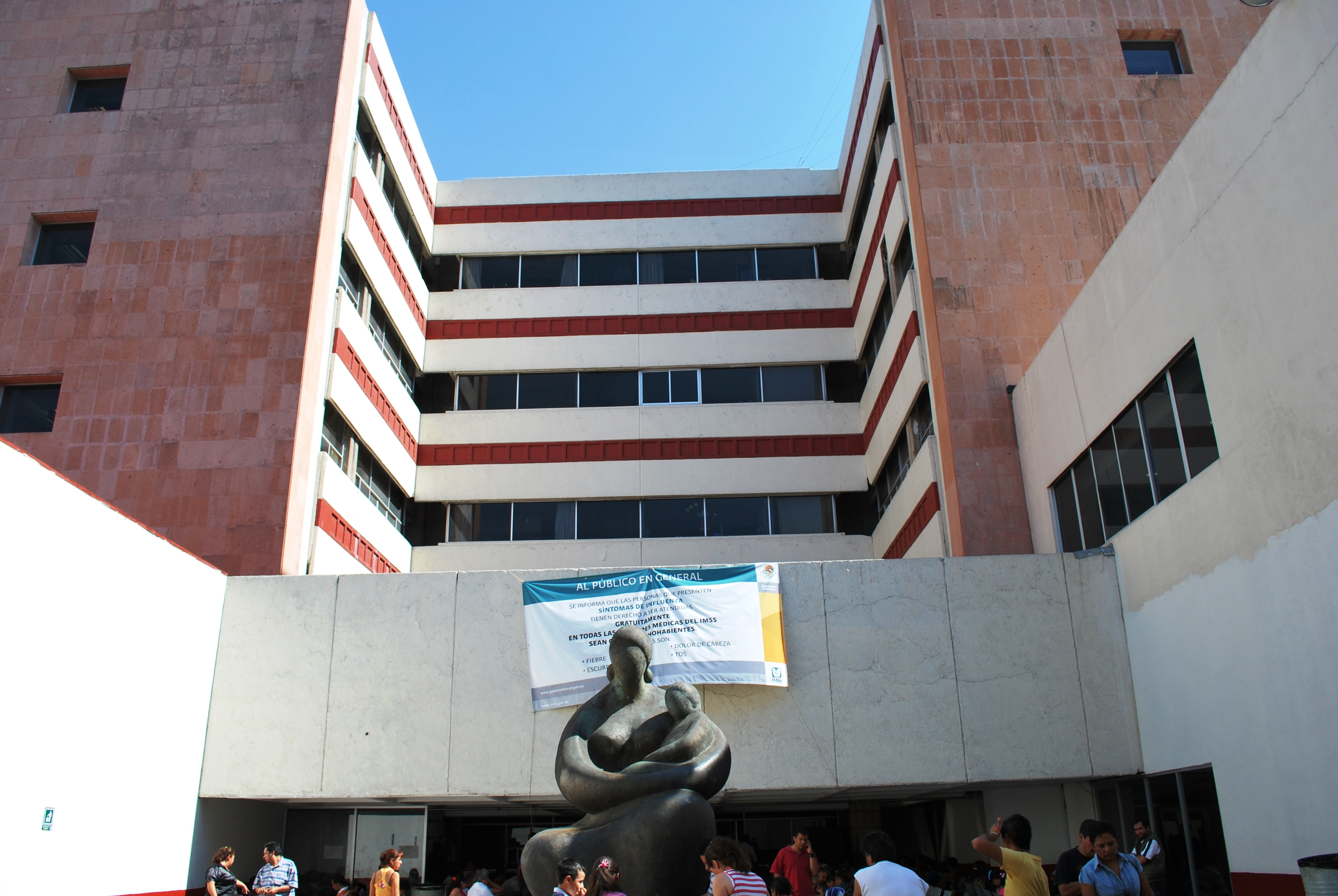 Los Venados public hospital located on Municipio Libre and Dr Vertiz streets in the Benito Juarez borough of Mexico City